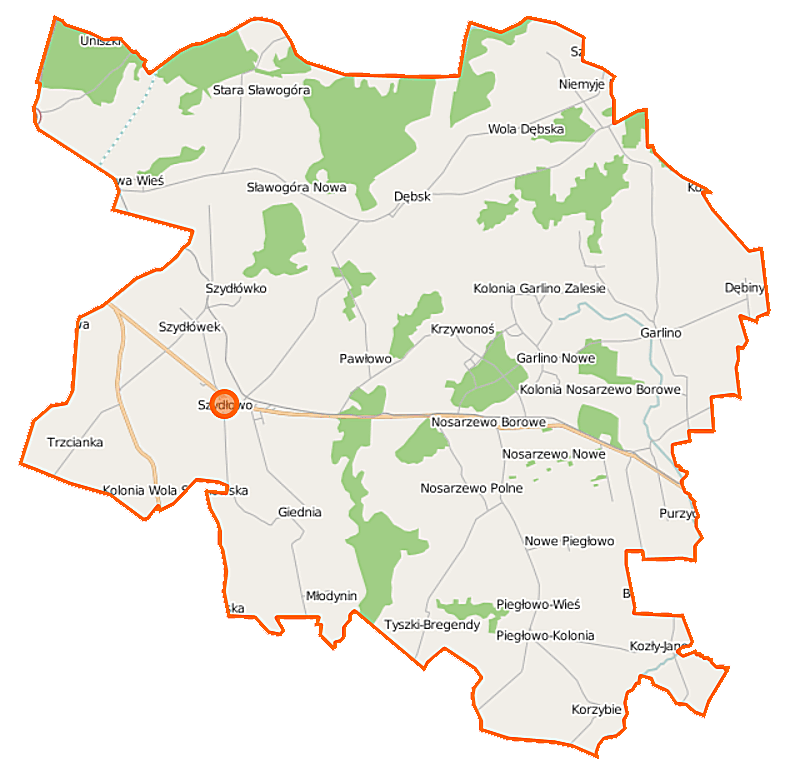 Map of Gmina Szydłowo, Poland This map of Szydłowo (gmina w województwie mazowieckim) was created from OpenStreetMap project data, collected by the community. This map may be incomplete, and may contain errors. Don't rely solely on it for navigation. Border coordinates53.147420.3851←↕→20.602553.0199